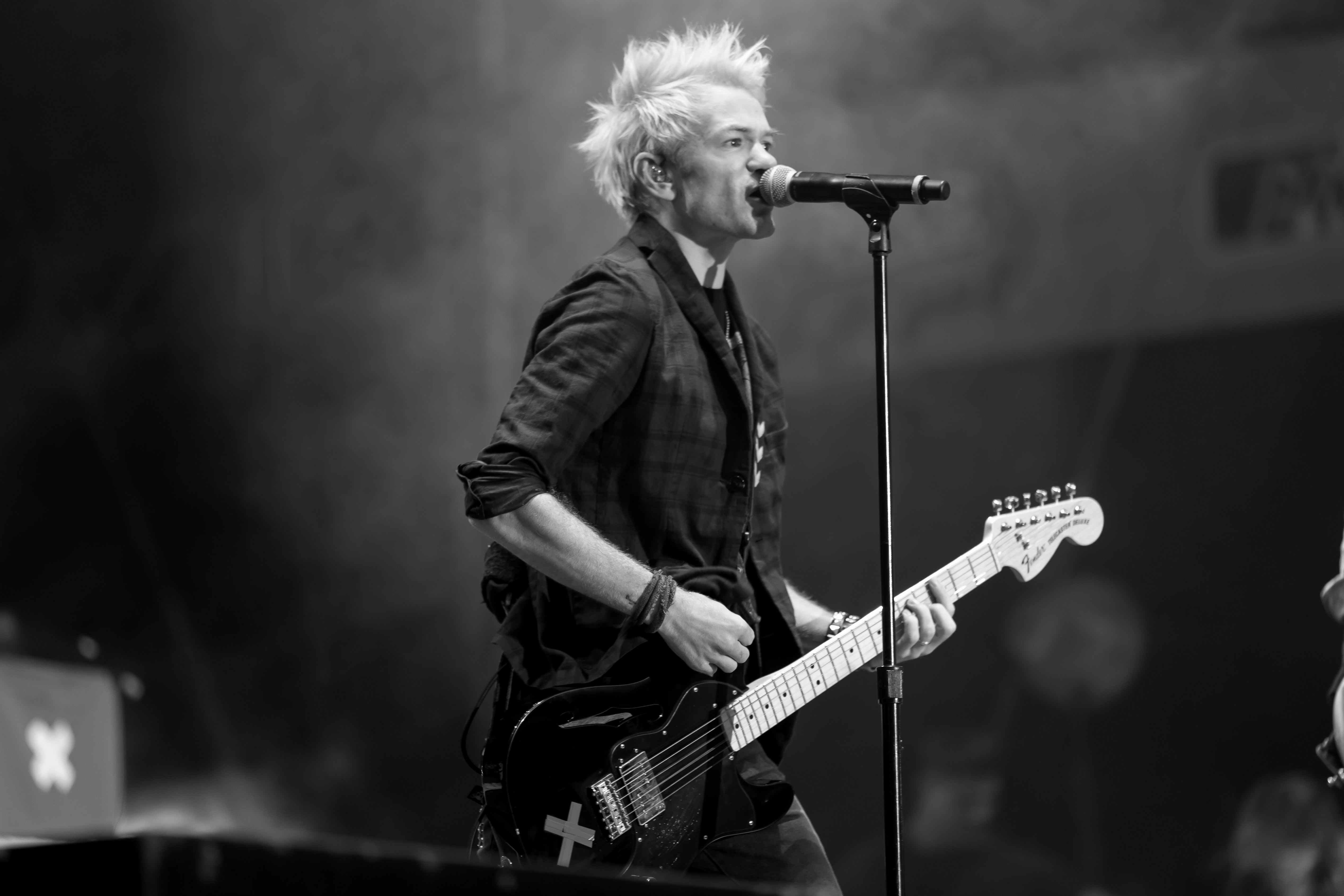 Sum 41 during Rocco del Schlacko 2016 at , Püttlingen, Saarland, Germany on 2016-08-11, Photo: Sven Mandel